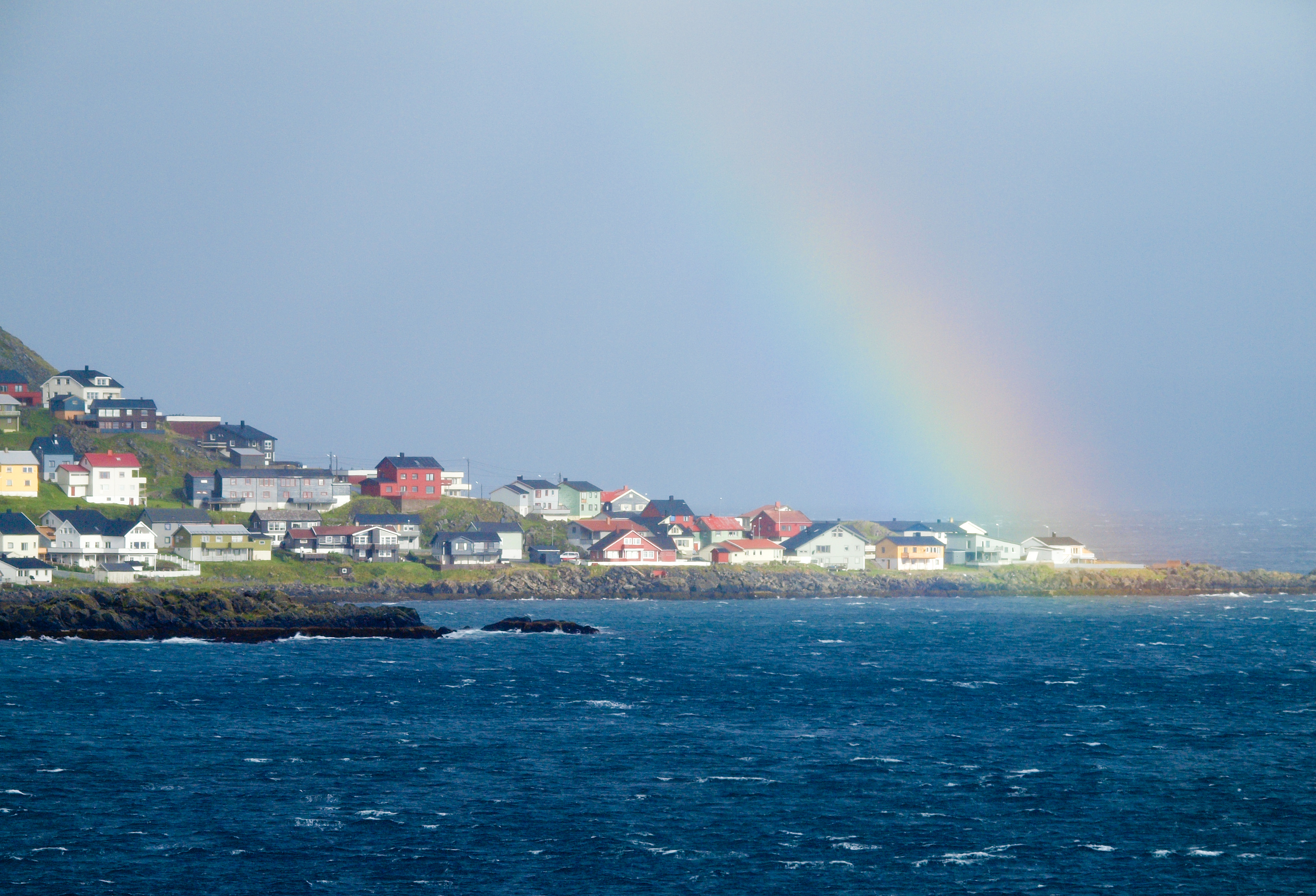 Rainbow in Honningsvåg, Norway